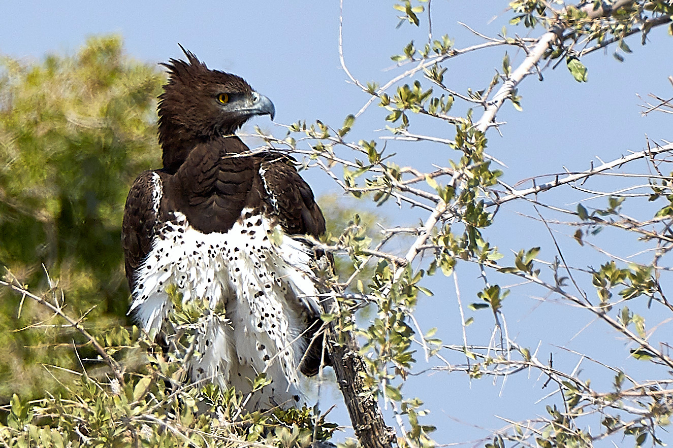 This Martial Eagle is perched on a thorn bush after chasing four Guineafowl into hiding. The breast feathers are still ruffled from landing.